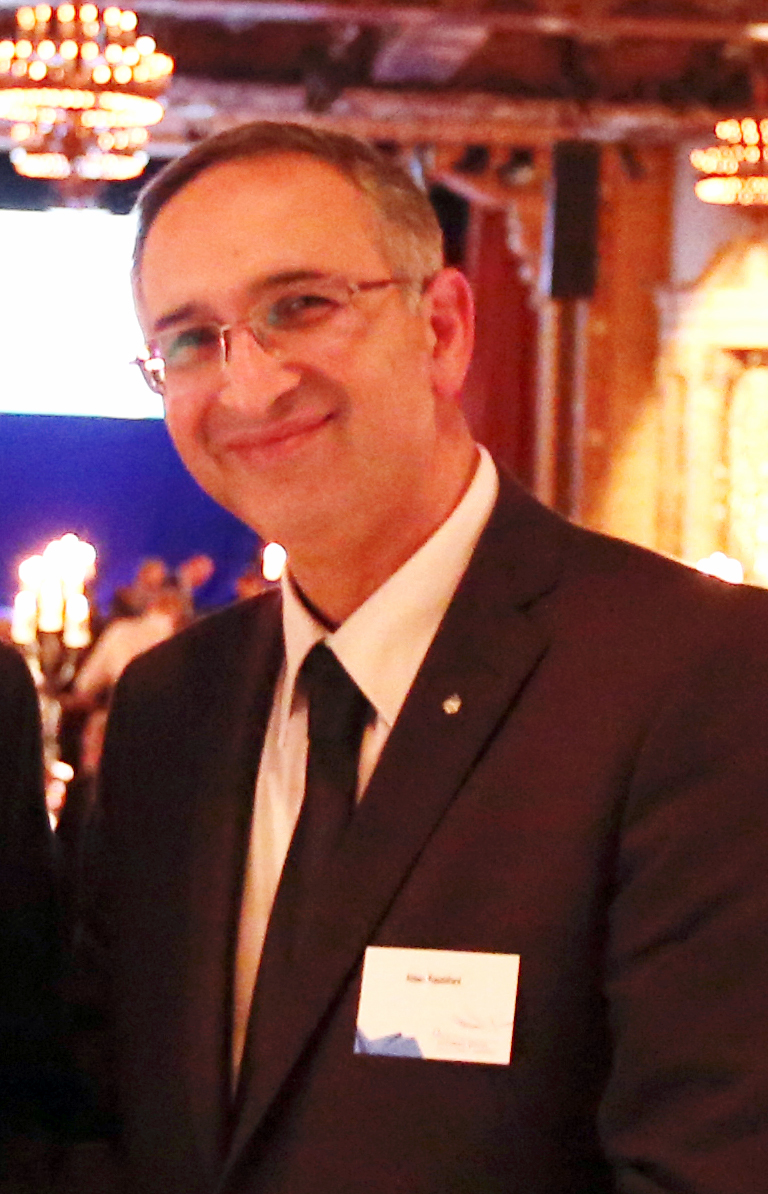 Dr. Abbas Rajabifard attending in a conference.